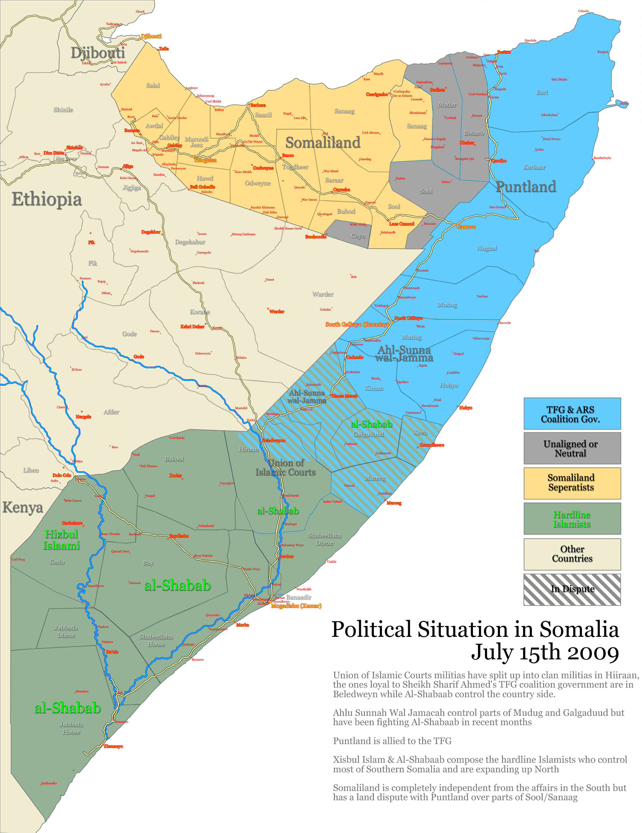 MY WORK